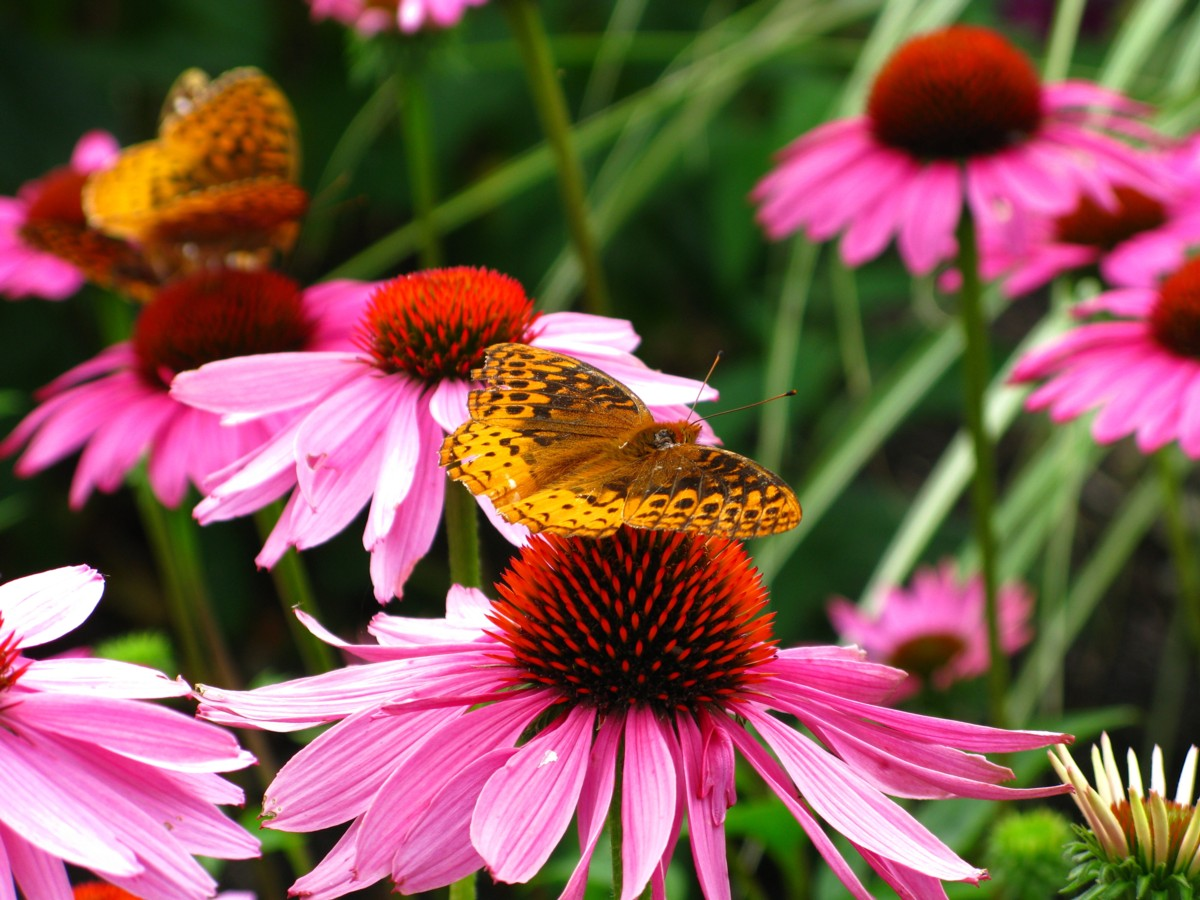 Butterfly Feeding Flower